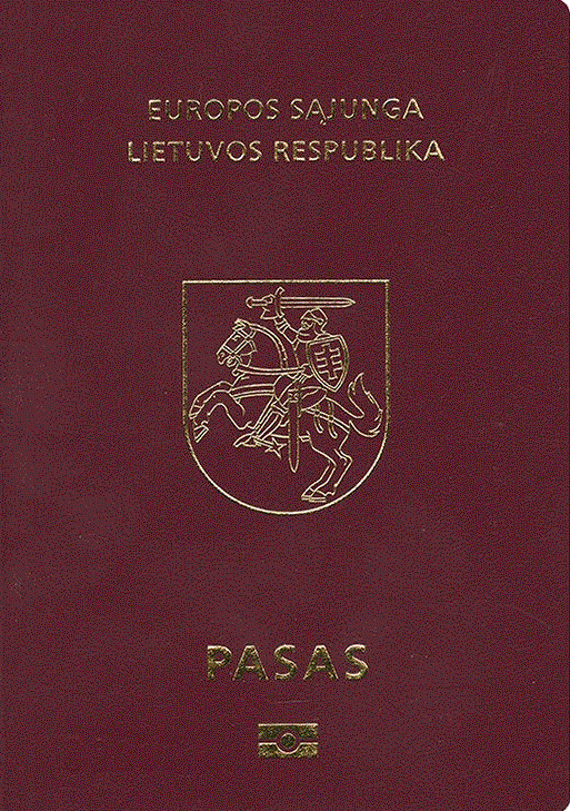 Lithuanian biometric passport available since January 2008Türkçe: Ocak 2008'den bu yana kullanılan biyometrik Litvanya pasaportu